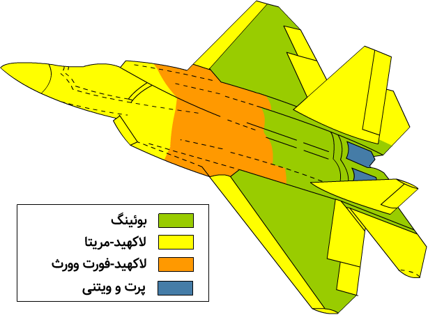 F-22 Raptor manufactures information